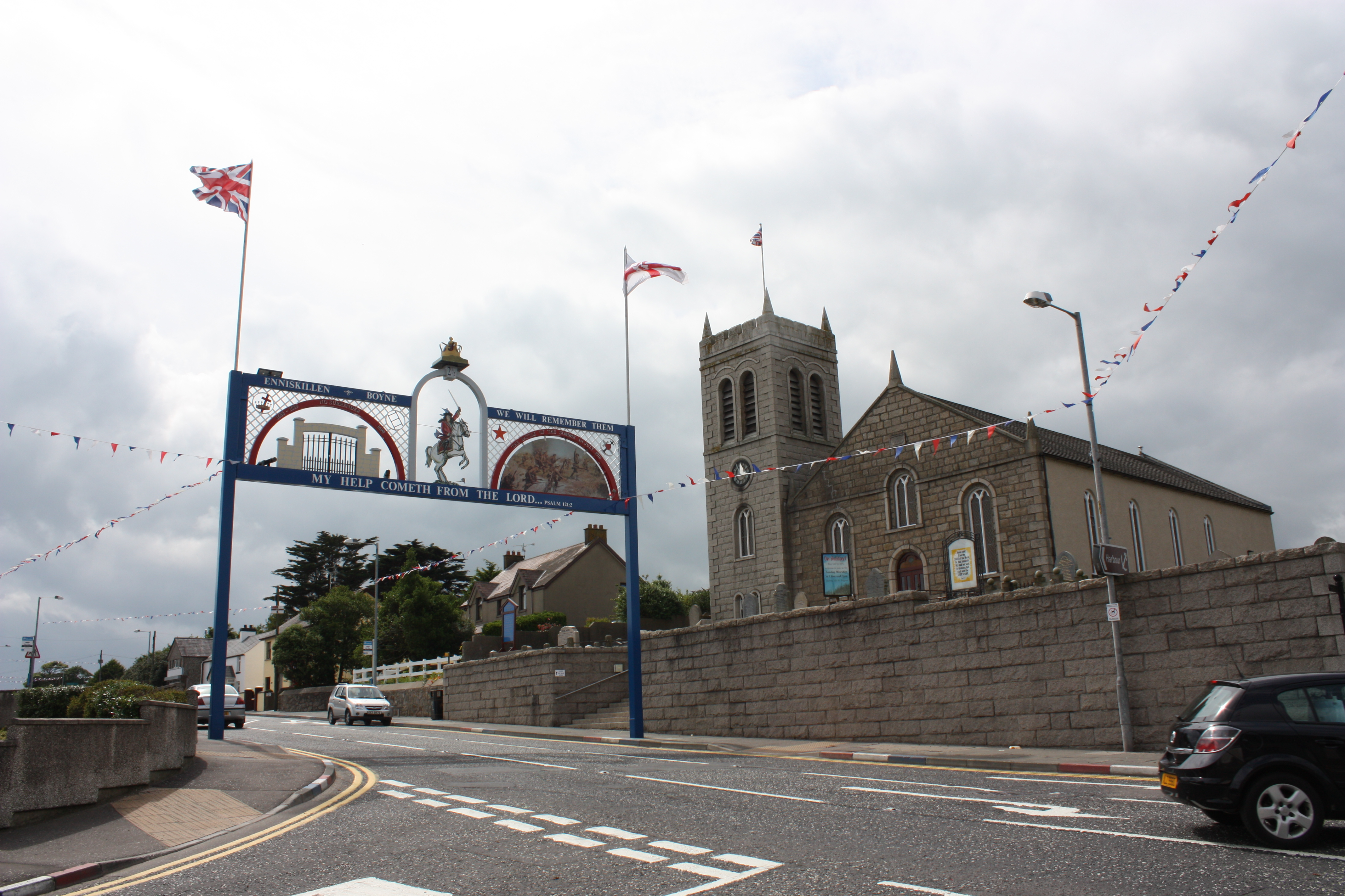 Orange Arch and Annalong Presbyterian Church on Kilkeel Road, Annalong, County Down, Northern Ireland, July 2010